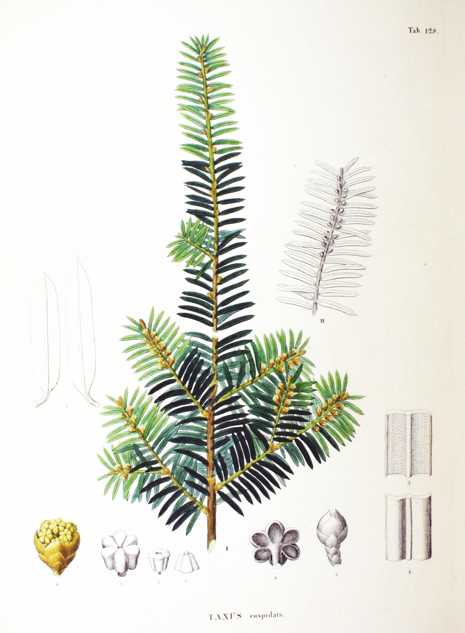 Plate from book